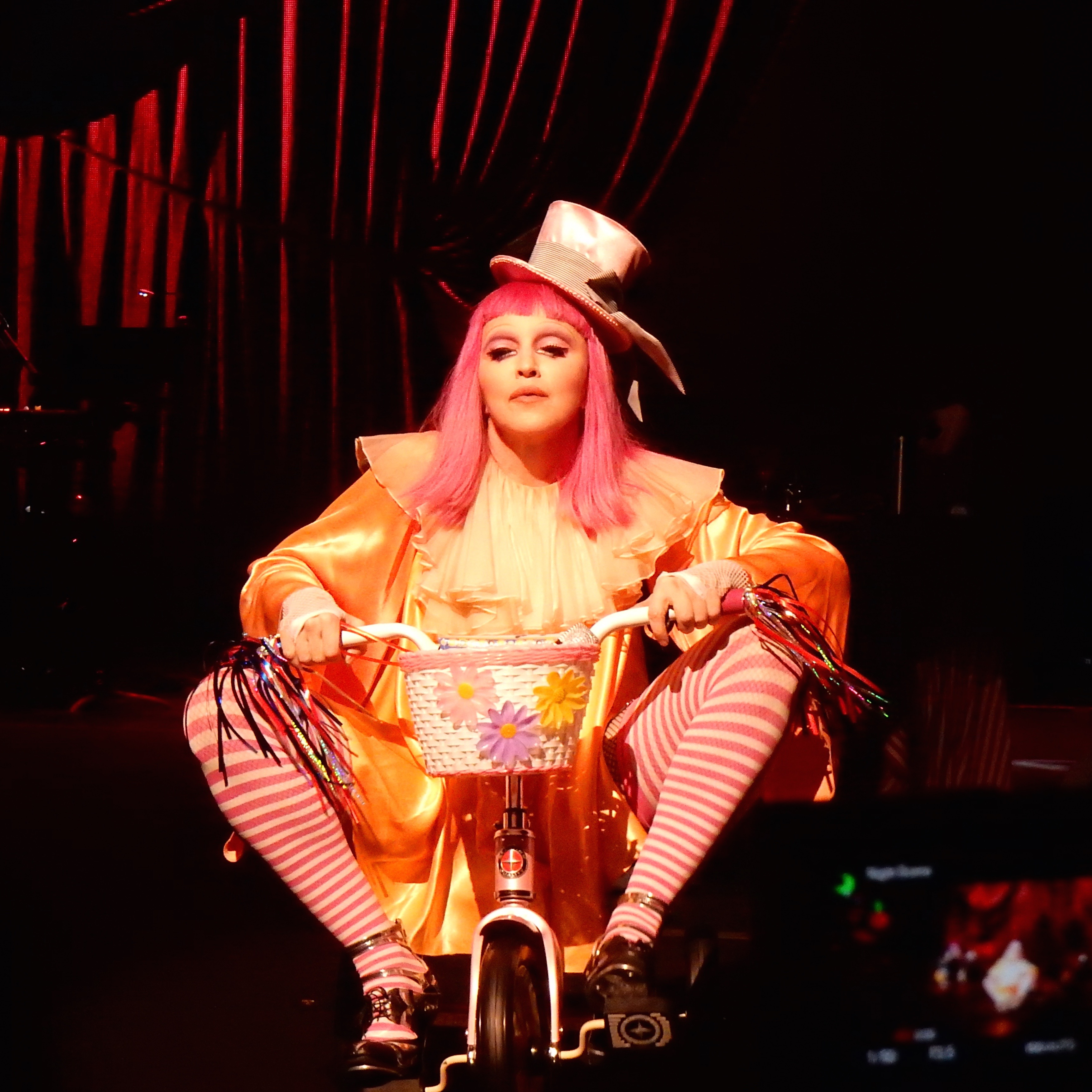 Special fan only show at The Forum, Melbourne, 10 March 2016